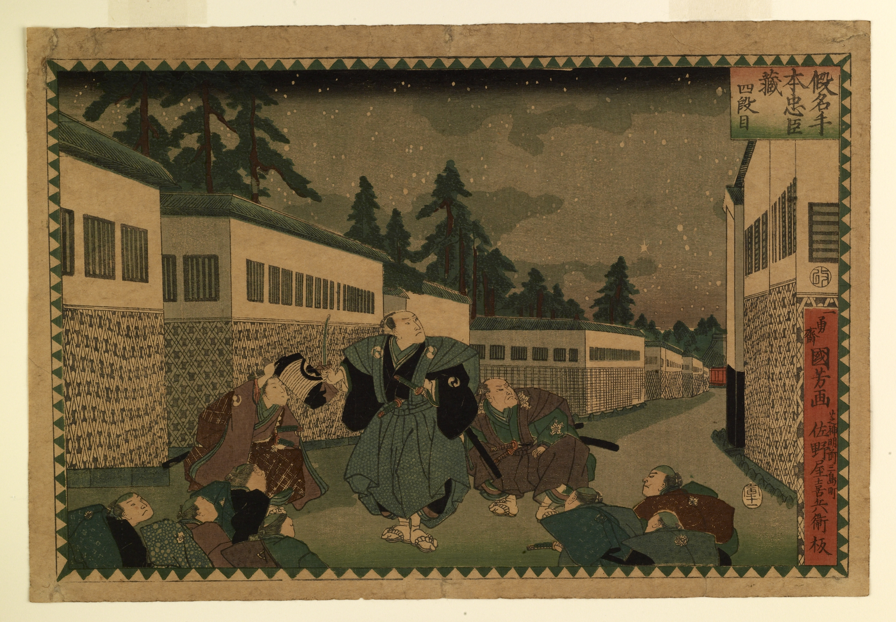 Following Hangan's ritual suicide, his chief retainer Yuranosuke joins some of his master's followers outside the mansion. He holds up the suicide weapon in his hand. "This dagger, its tip stained with our master's blood, preserves his soul still, and it cries out for vengeance. With this dagger we will cut off Moronao's head and accomplish our mission. . . . Forty-seven men immortalized!"